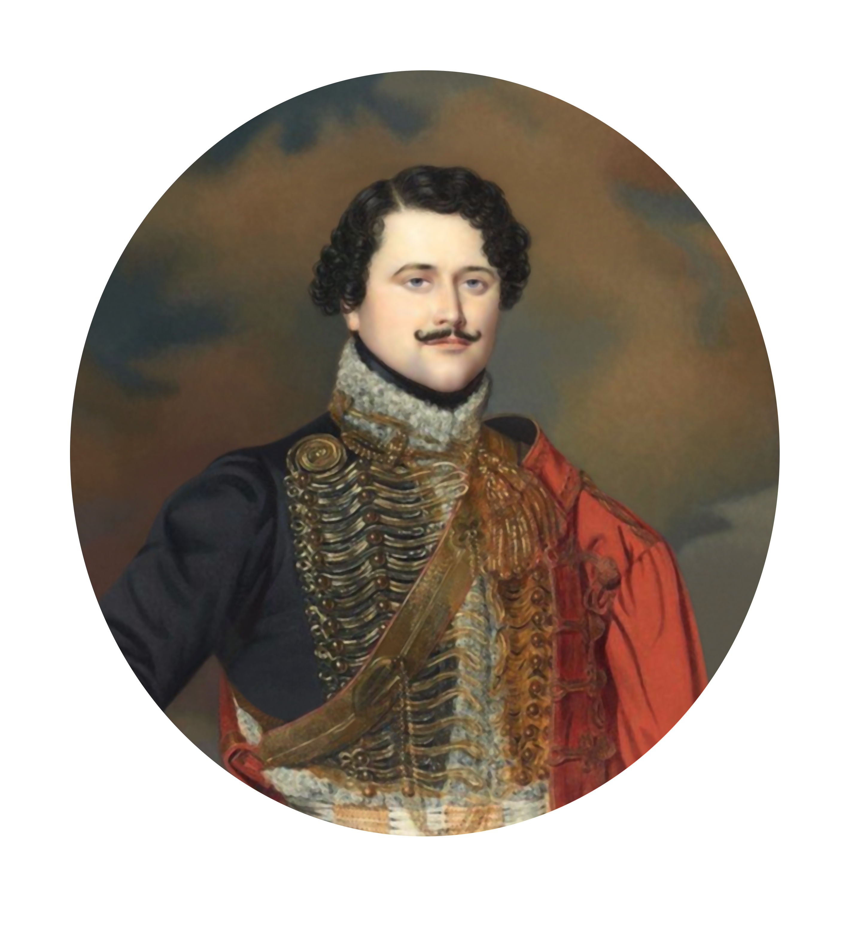 Marcellin Marbot en tenue de colonel.